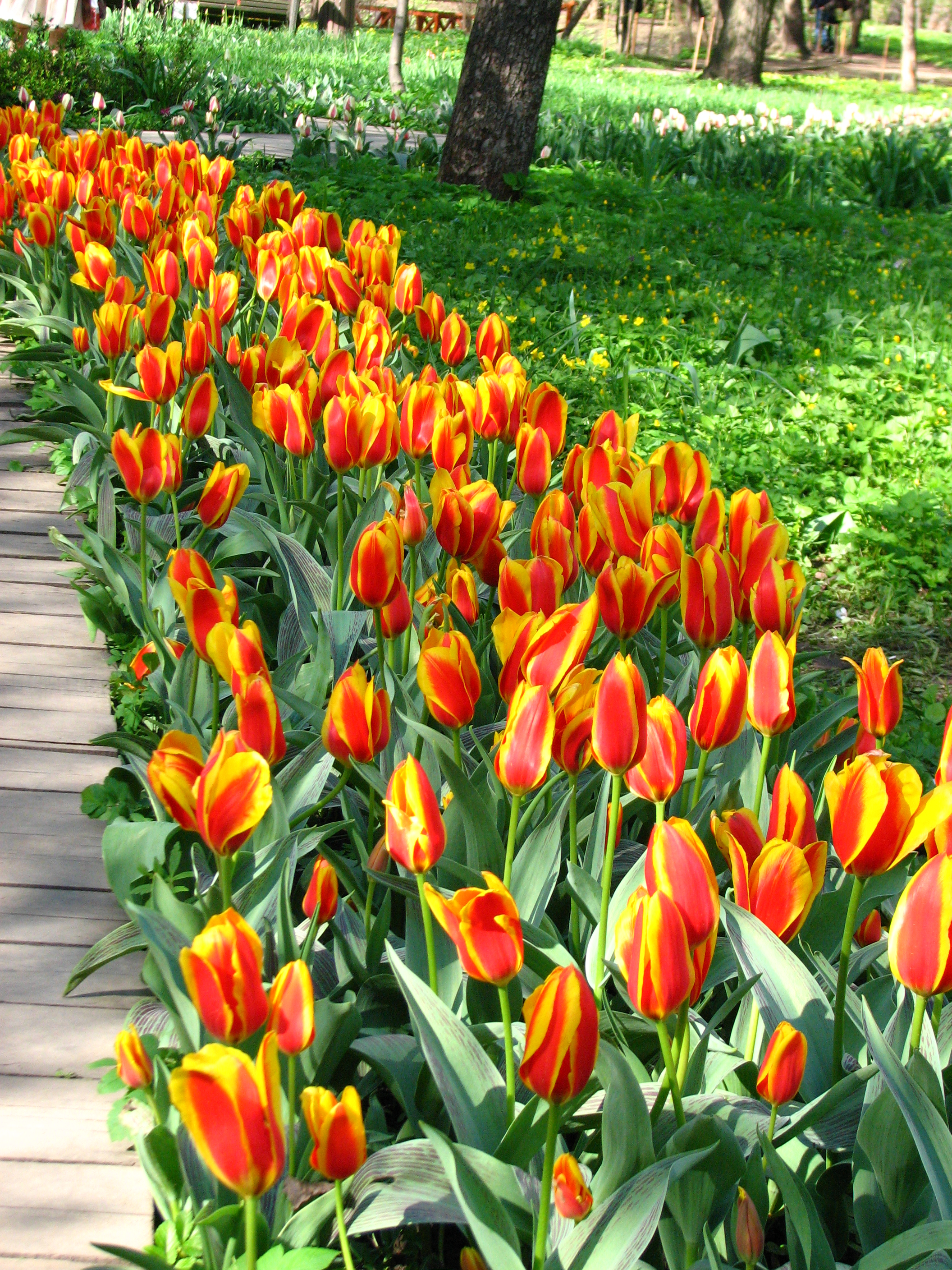 Tulips in the garden "Aptekarsky Ogorod" (Botanical garden of Moscow State University on Prospekt Mira)